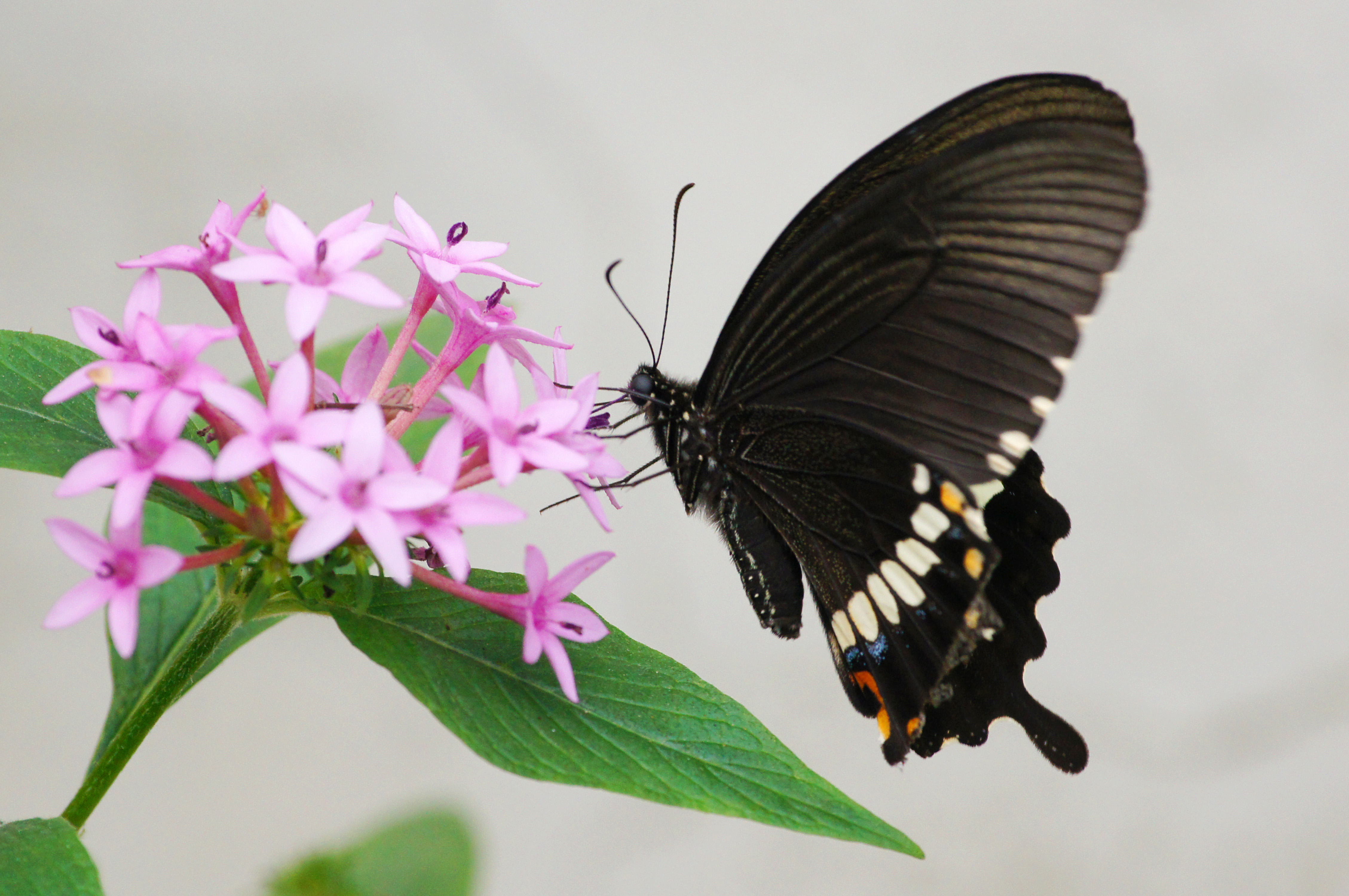 玉帶鳳蝶 Papilio polytes polytes